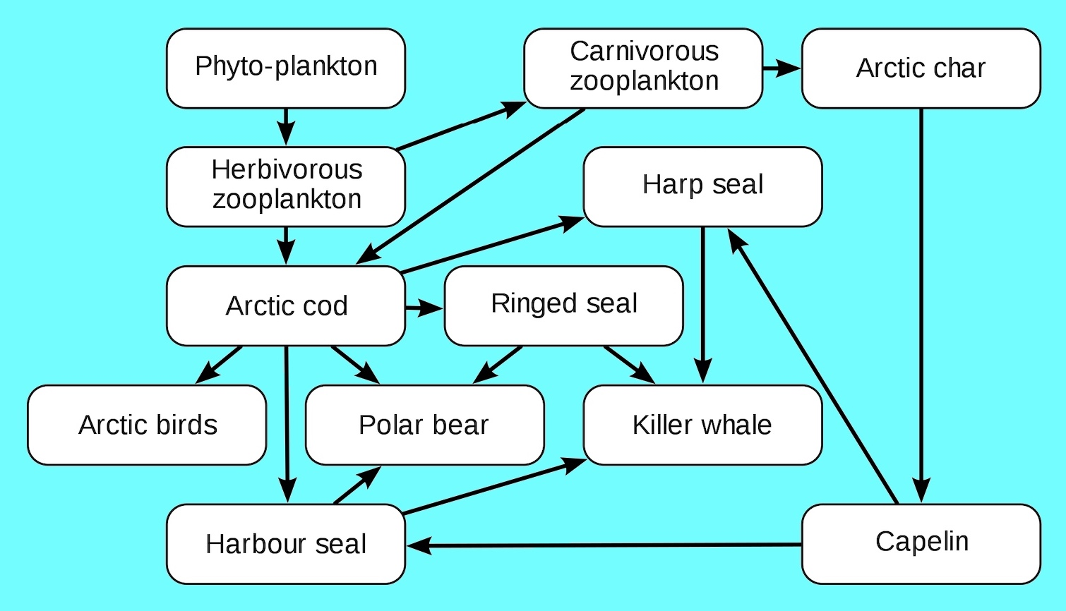 Example of an Arctic food web